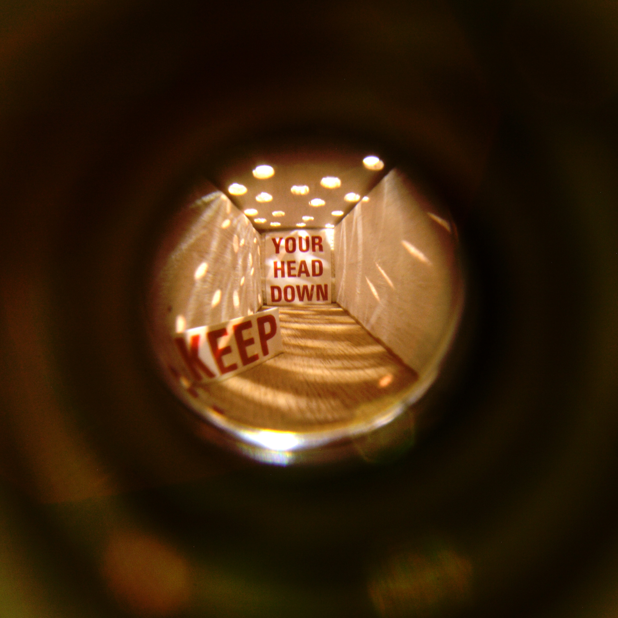 Peep-Box, "Keep your head down", interior view, Brussels 2006